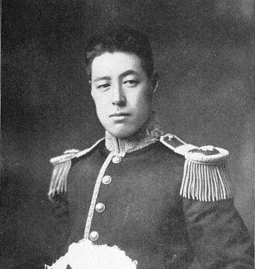 Chikanobu Matsudaira